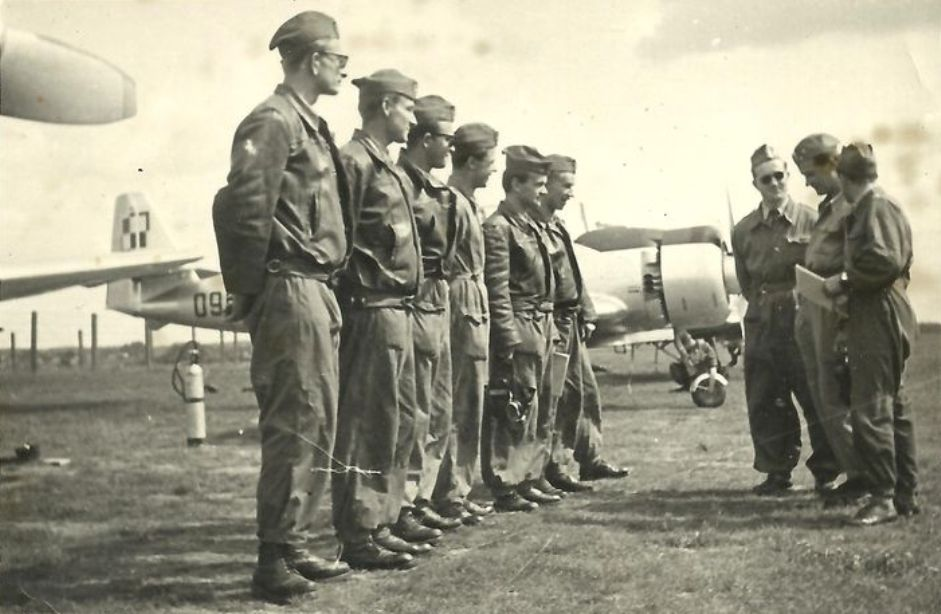 Oficerowie słuchacze, wskazówki przed lotami,od lewej Rychłowski, Szeląg, Bojarski, 1960